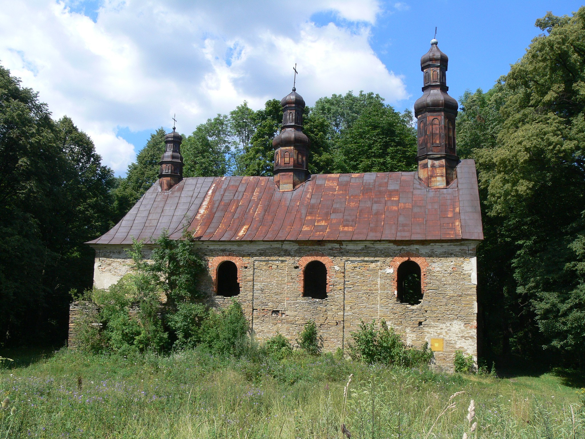 Ruins of the Greek Catholic church in Króliku Wołoskim, community Rymanów, Poland